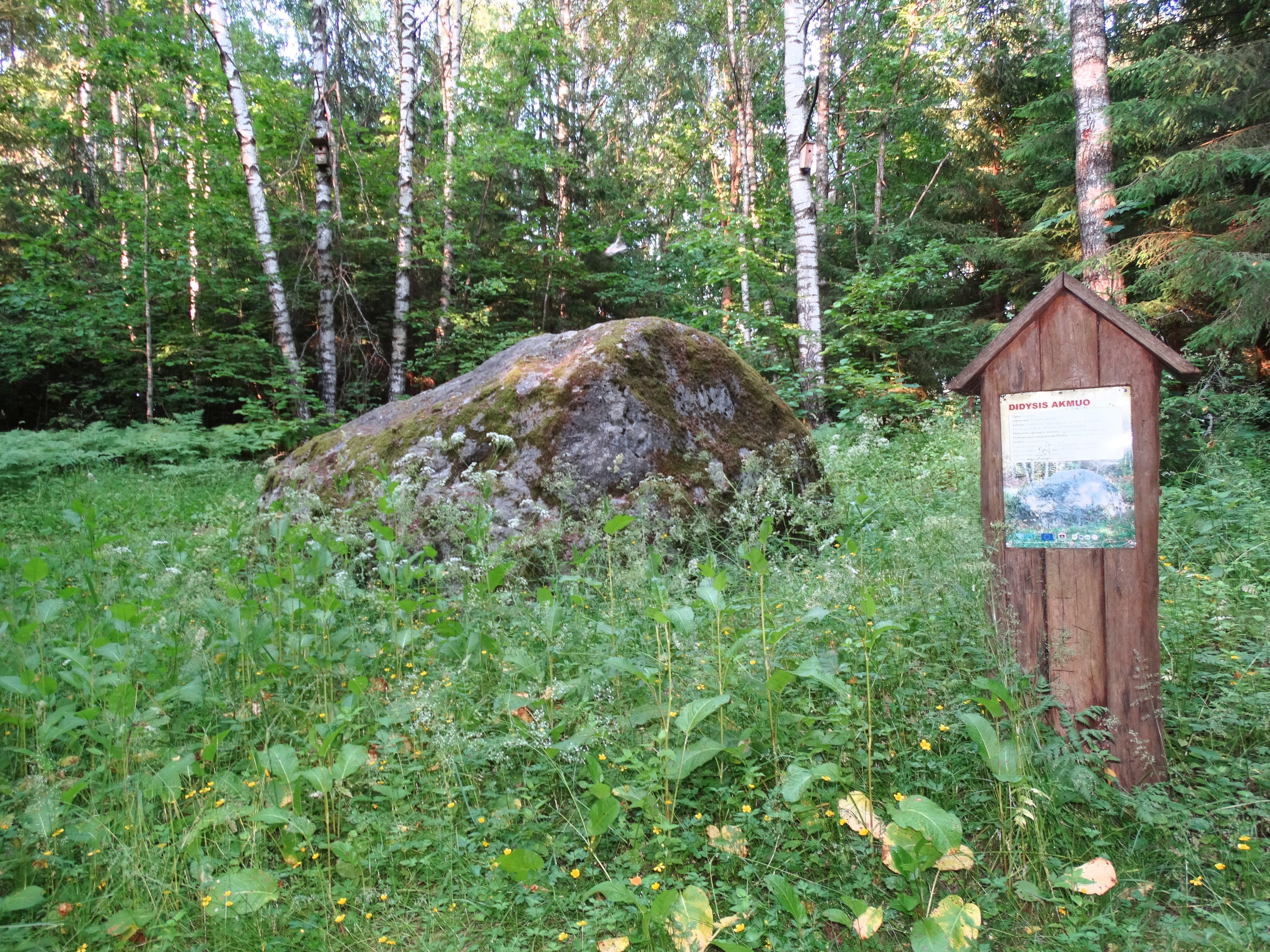 Jomantai Great Stone, Telšiai District, Lithuania